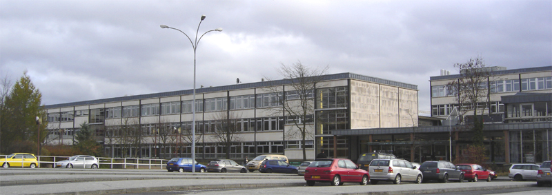 Lycée technique du Centre in Luxembourg City, main building.